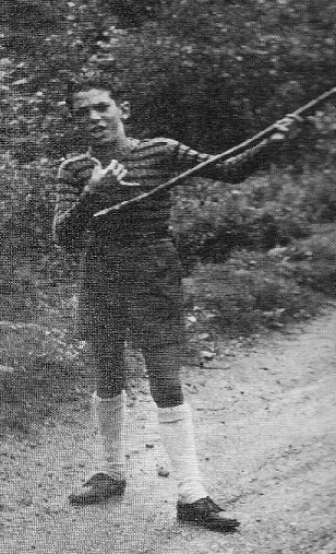 Sergio Franchi in Italy @ 10 years-old